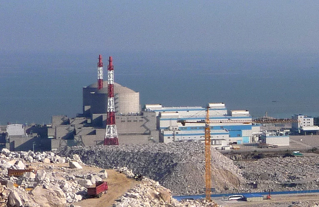 First construction phase of Tianwan Nuclear Power Plant, Unit one and two